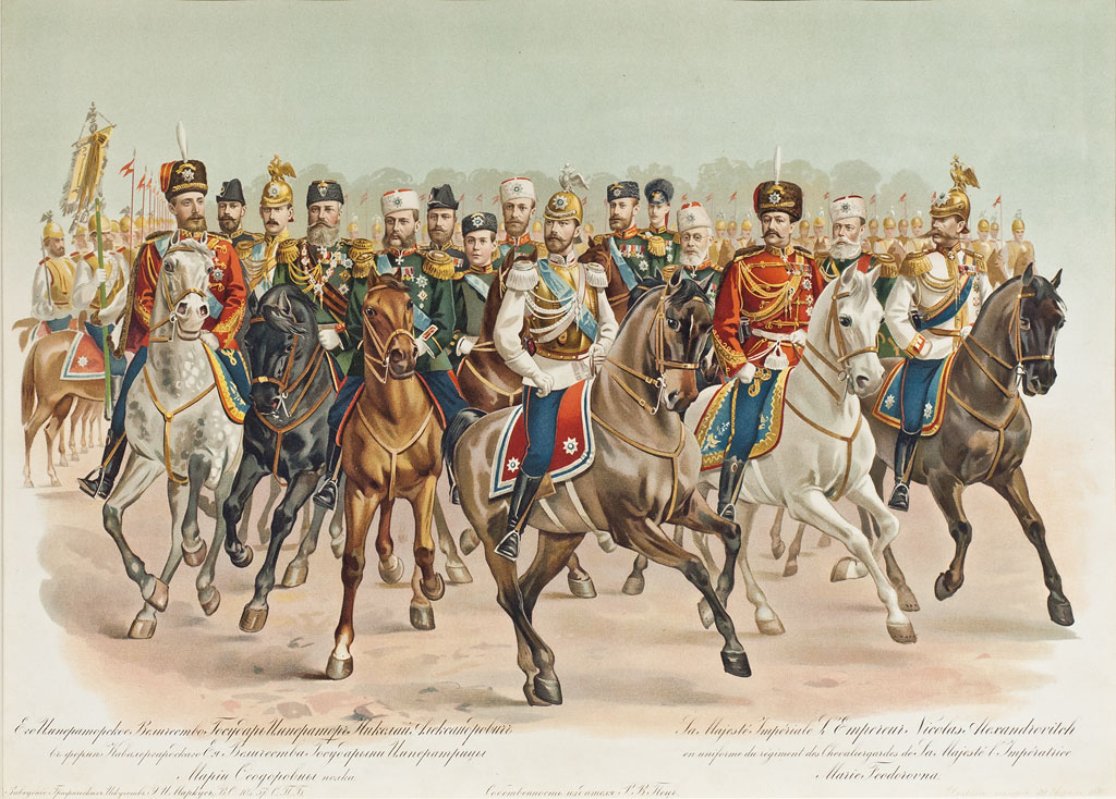 Nicholas II of Russia in the uniform of Chevaliers Gardes Regiment.